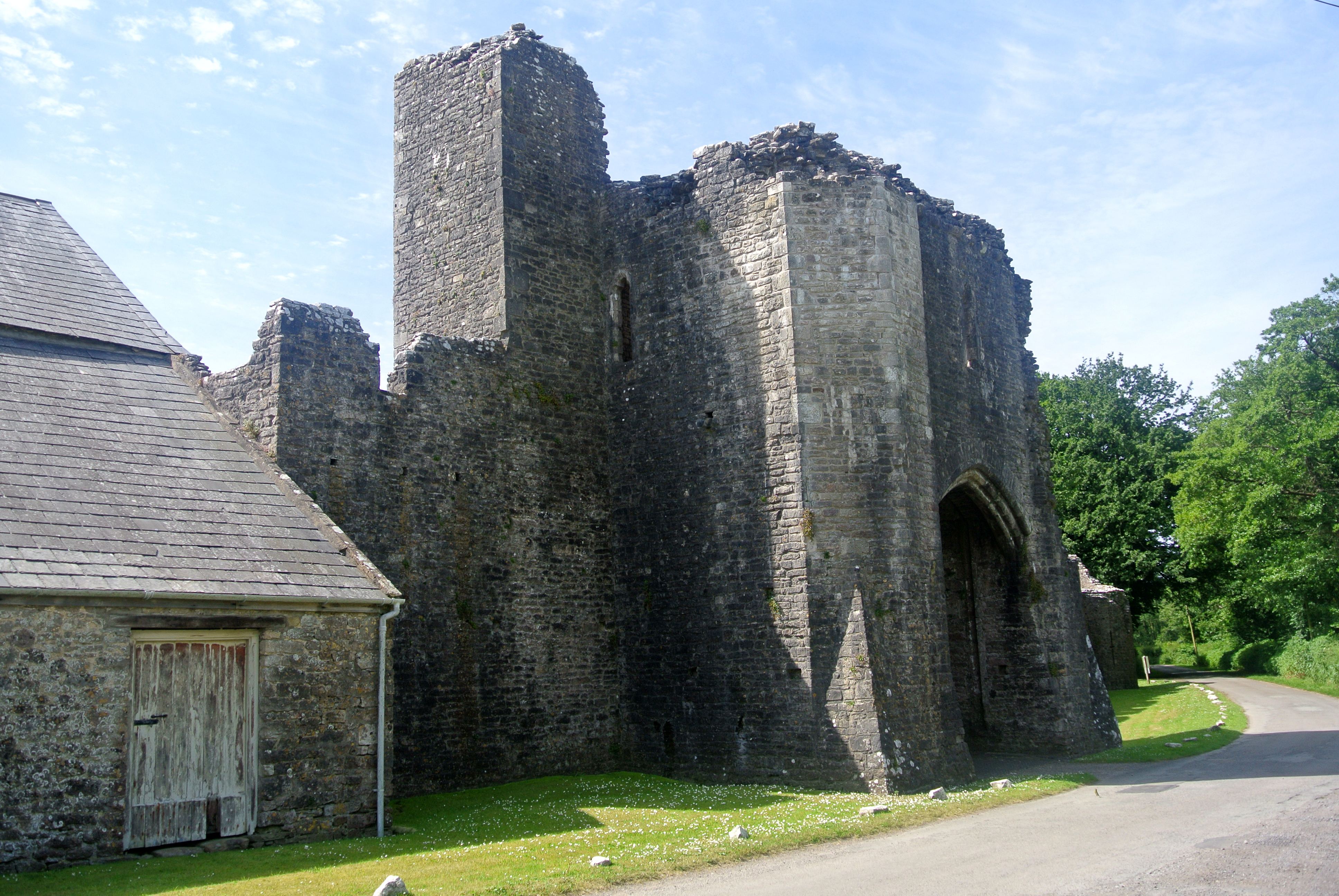 Ewenny Priory exterior, southern Wales.